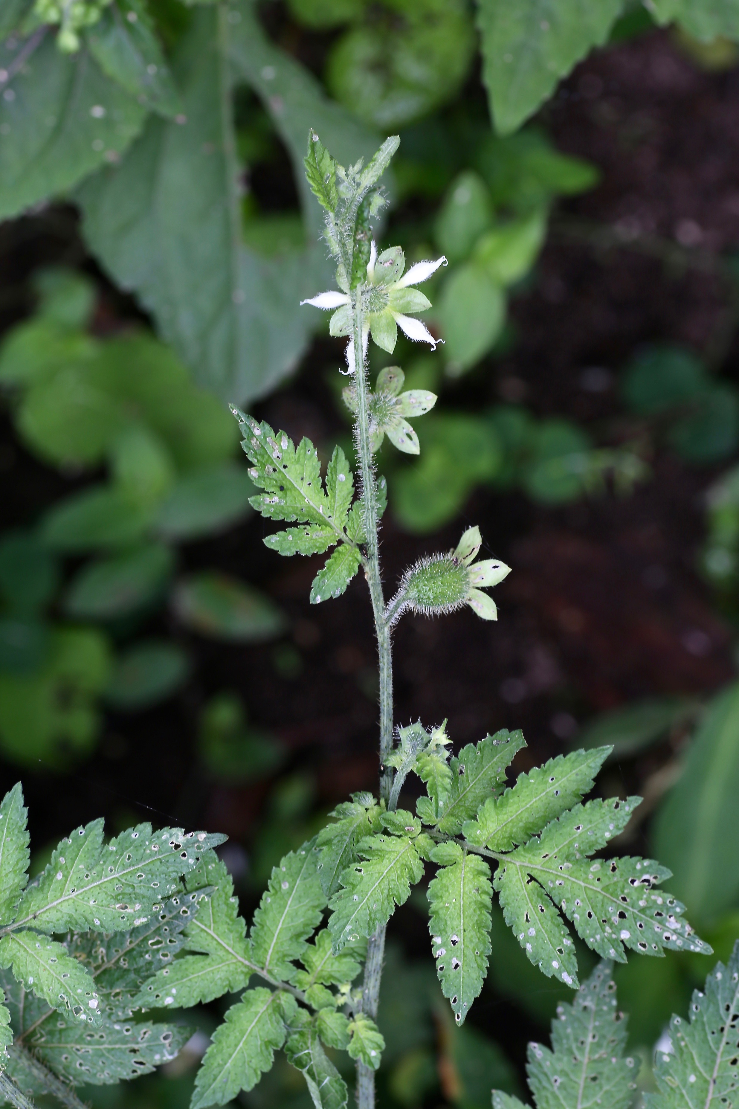 Ecuador, Mindo, Yellow House trail